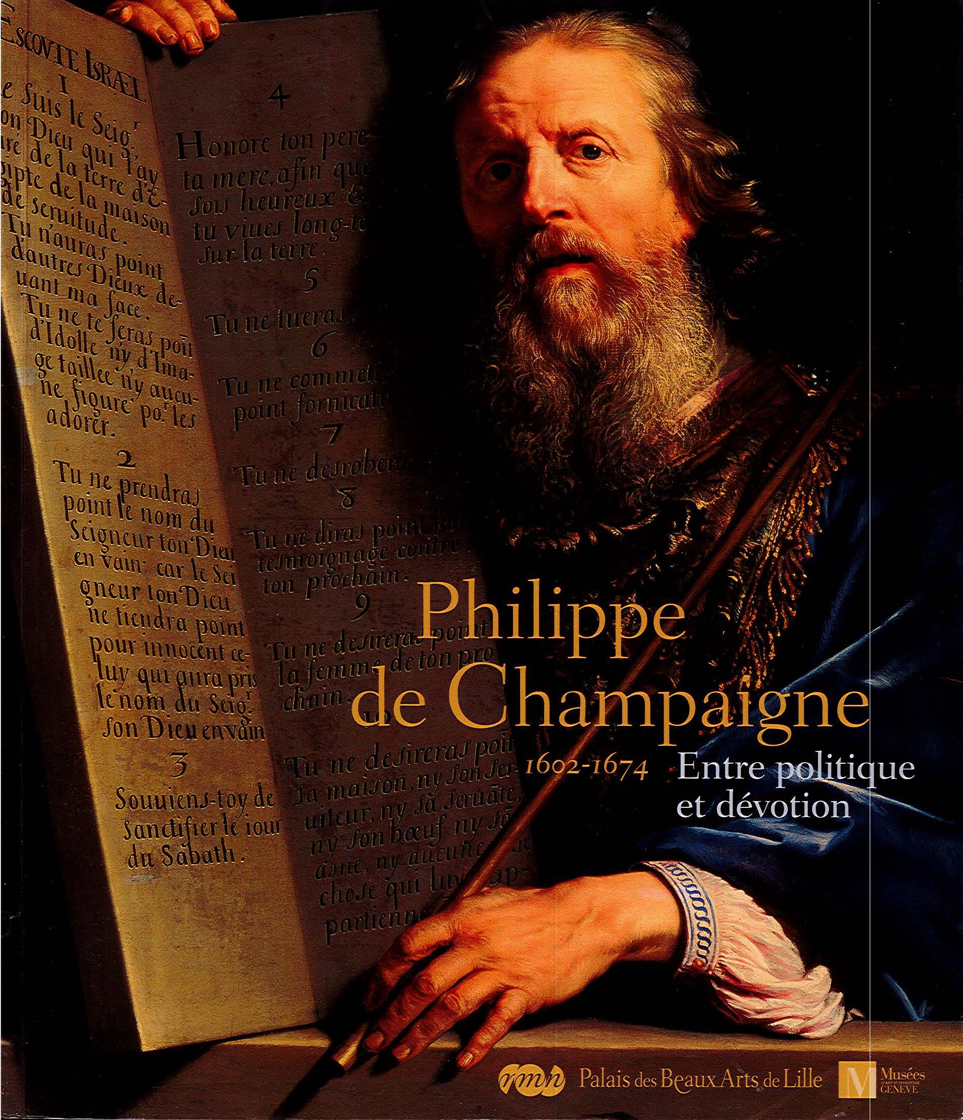 The book of the exhibition "Philippe de Champaigne" which took place at the museum from the 27th of april to the 15th of august 2007.